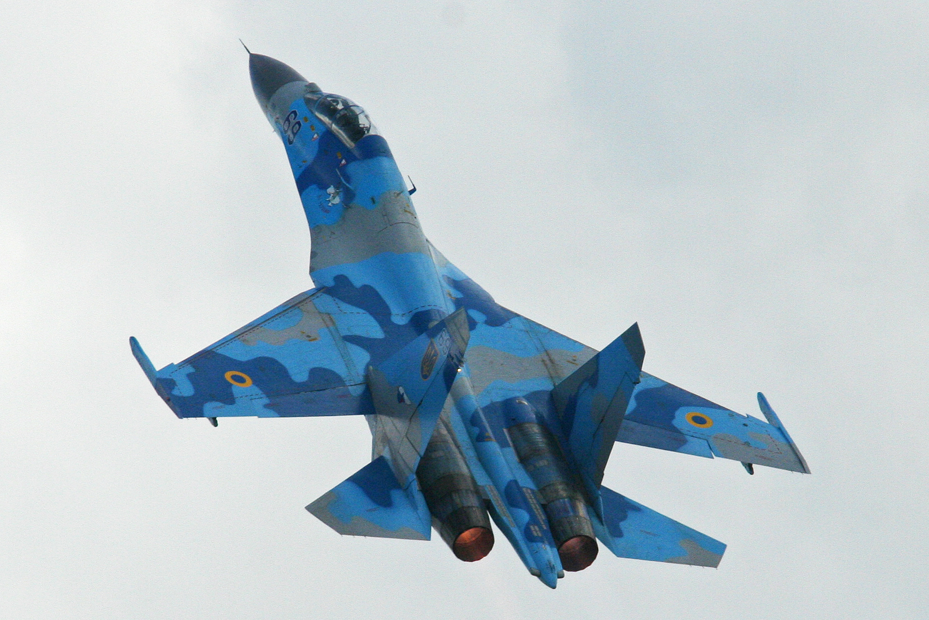 Operated by the Myrhorod based 831st VABR, Ukranian Air Force. c/n 96310418215. Seen during its solo display at the 2013 Airshow at Radom Airbase, Poland. 24-8-2013